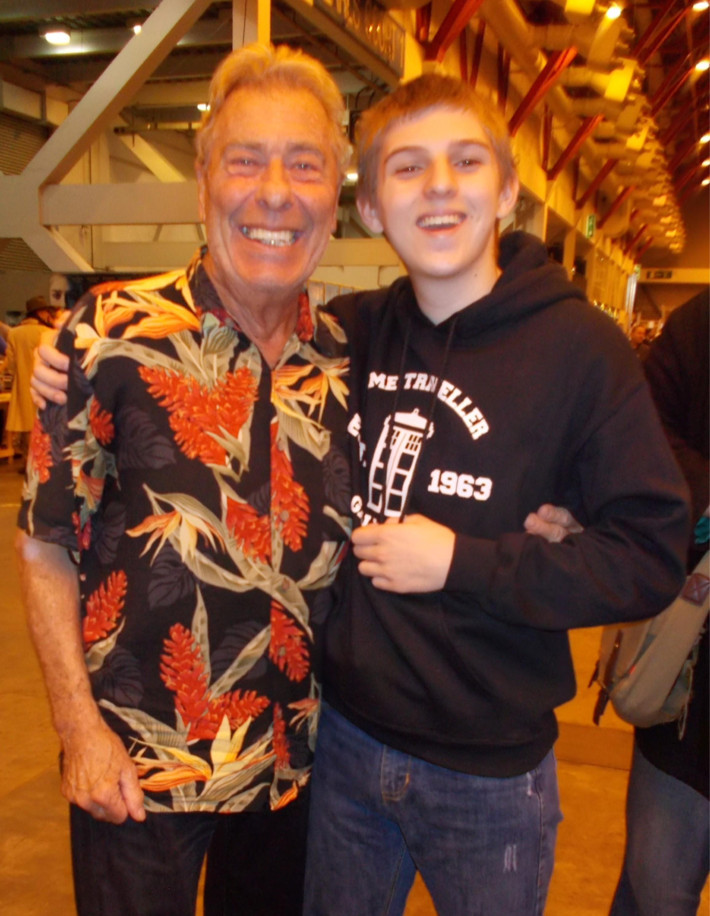 John Levene in 2014 at a convention in London with a young fan.